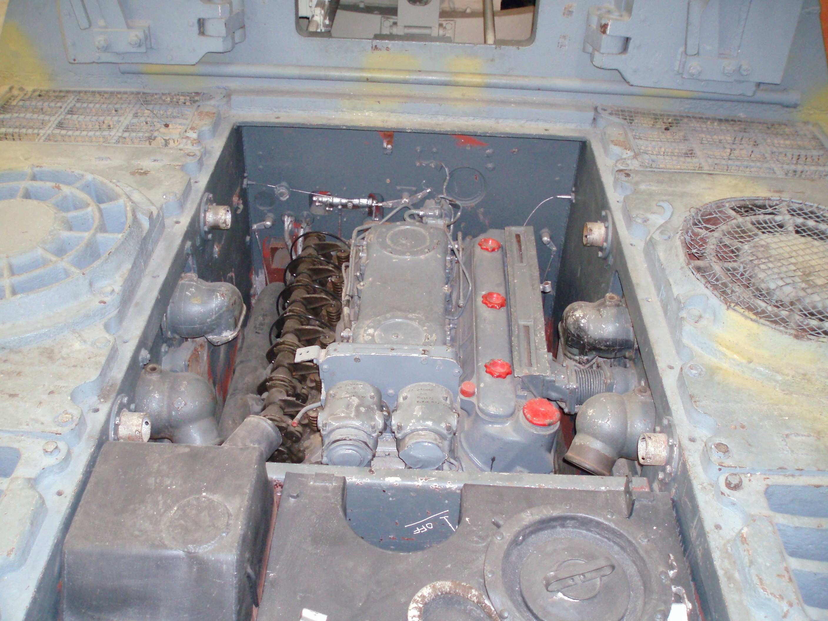 Bovington Tank Museum 323